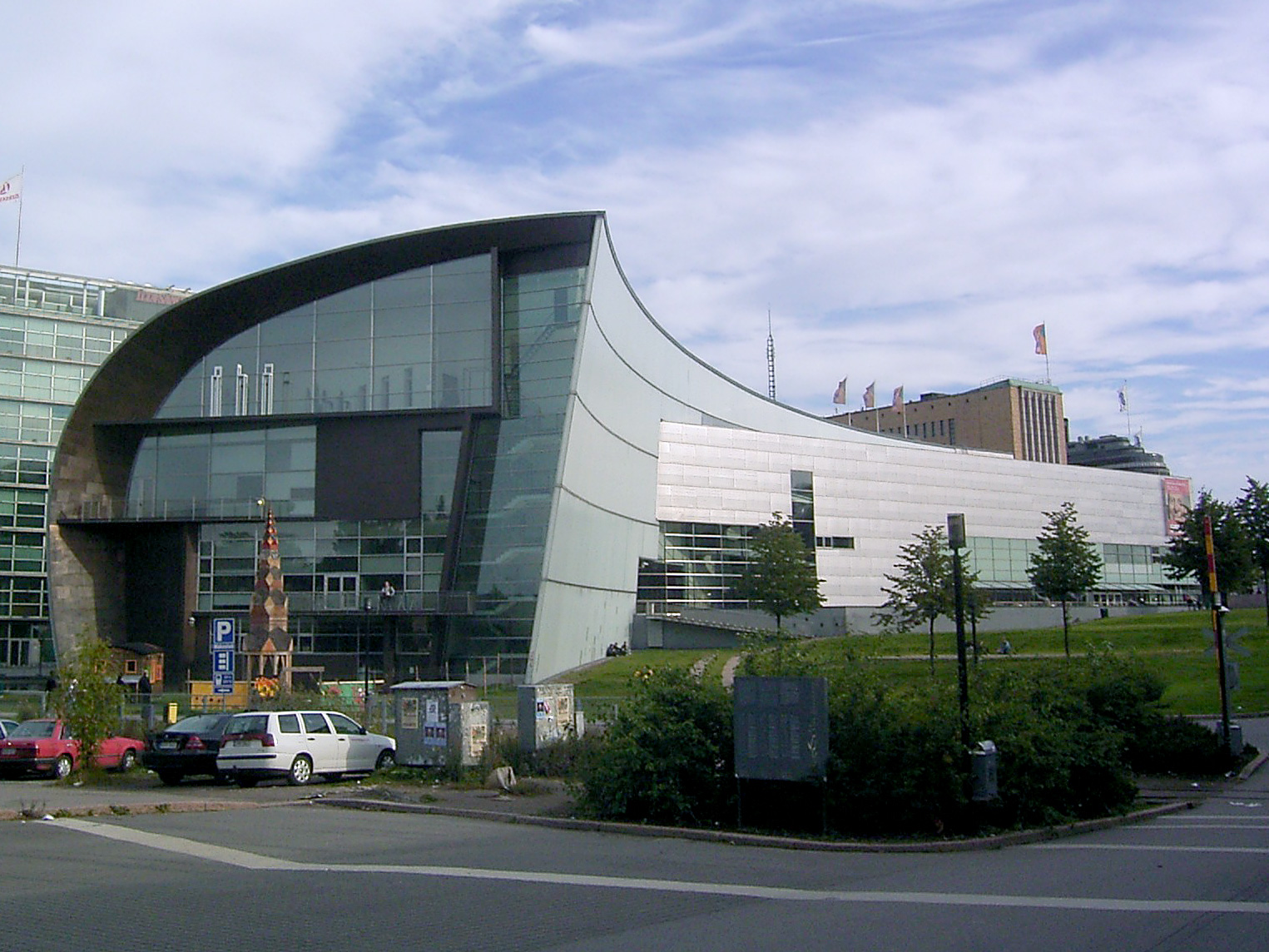 Kiasma, Museum of Contemporary Art in Helsinki, Finland